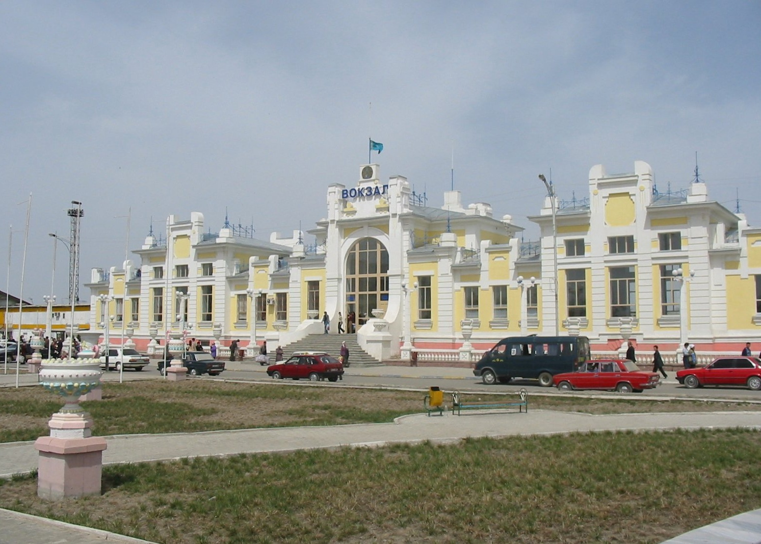 Train station in Qyzylorda, Kazakhstan